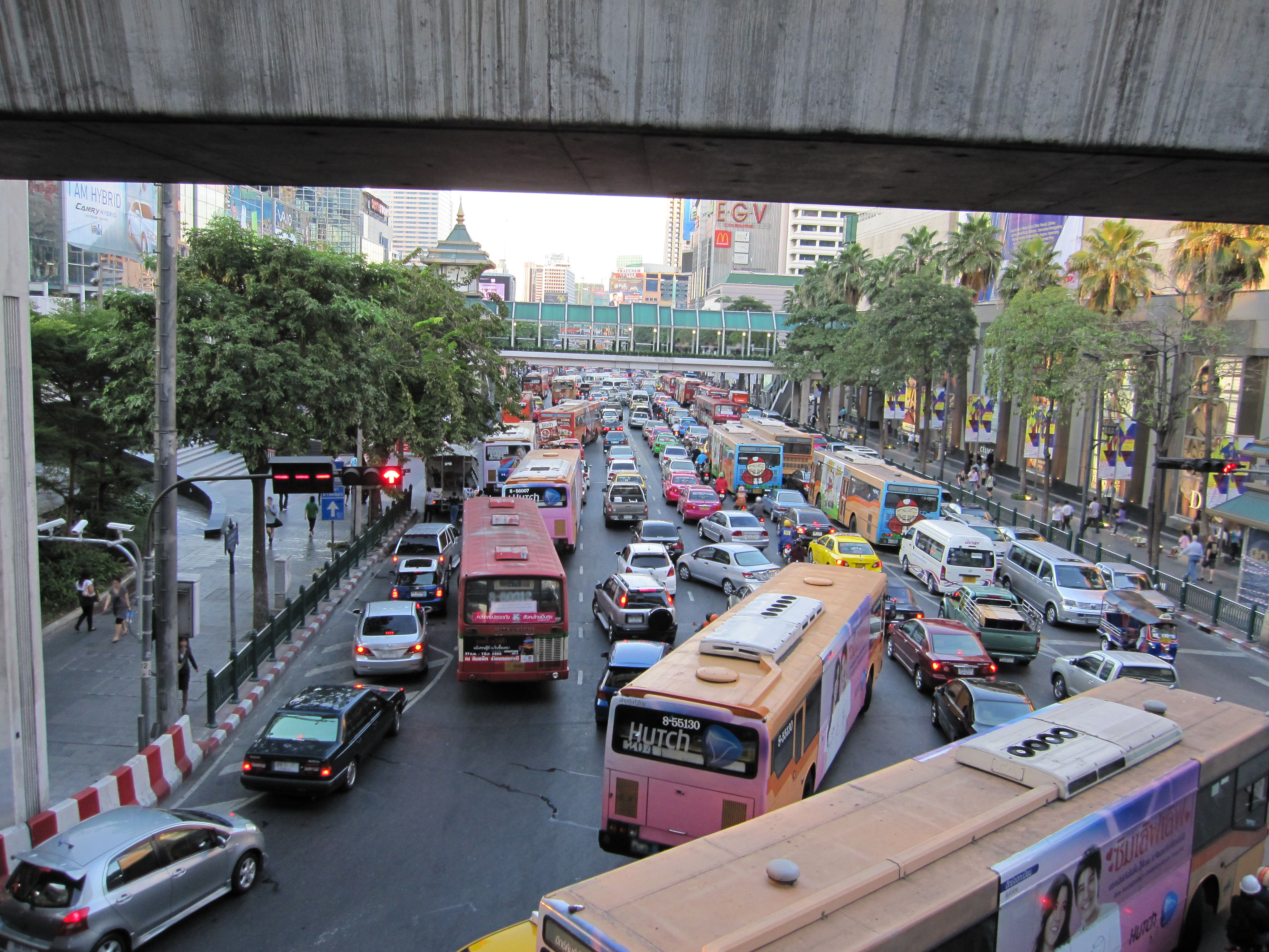 Traffic jam